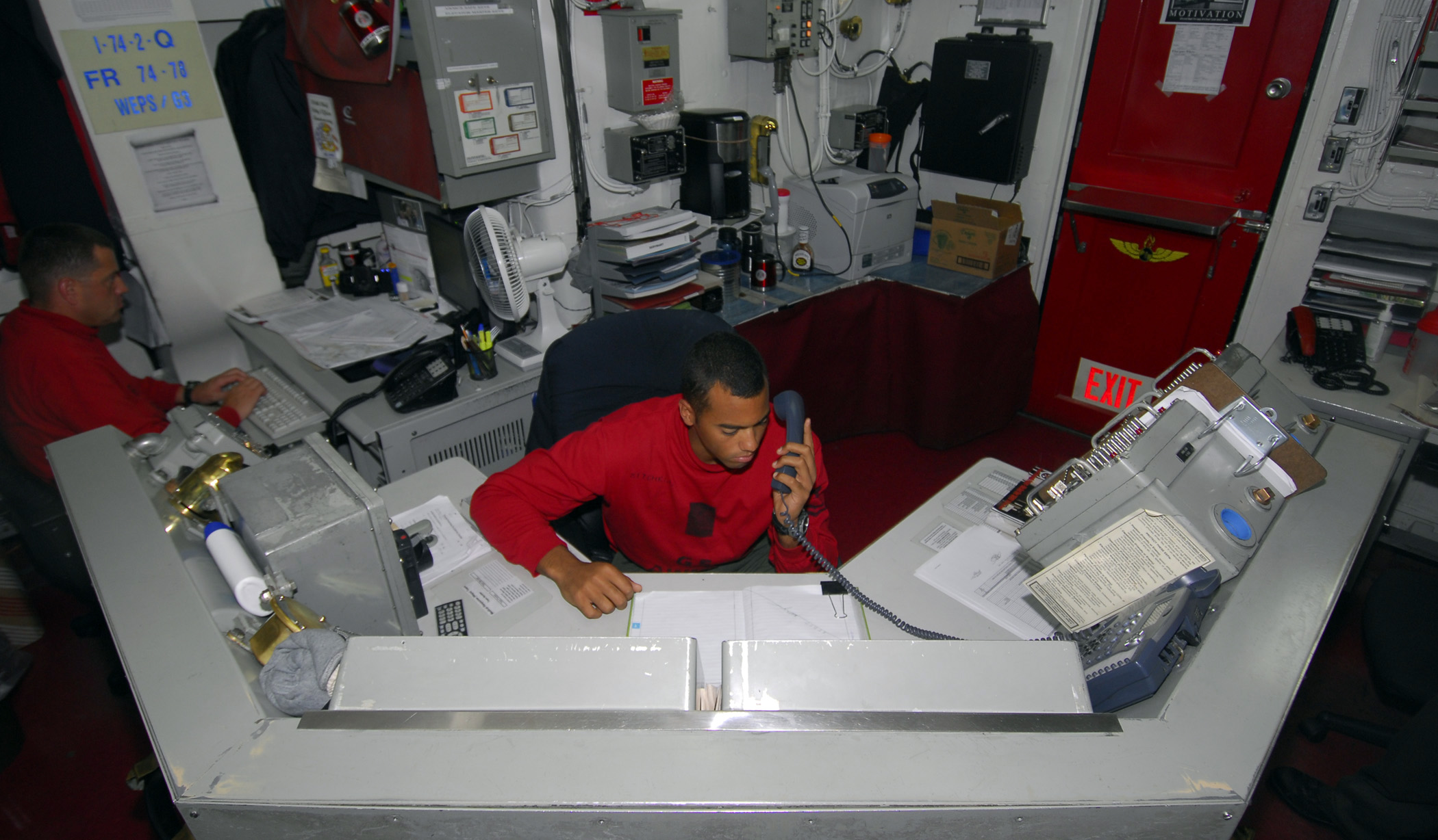 Aviation Ordnanceman 2nd Class John Mitchell, from Portsmouth, N.H., answers the phone while on watch at the aviation weapons movement control station in ordnance control aboard the aircraft carrier USS John C. Stennis (CVN 74). John C. Stennis is on a scheduled six-month deployment to the western Pacific Ocean.